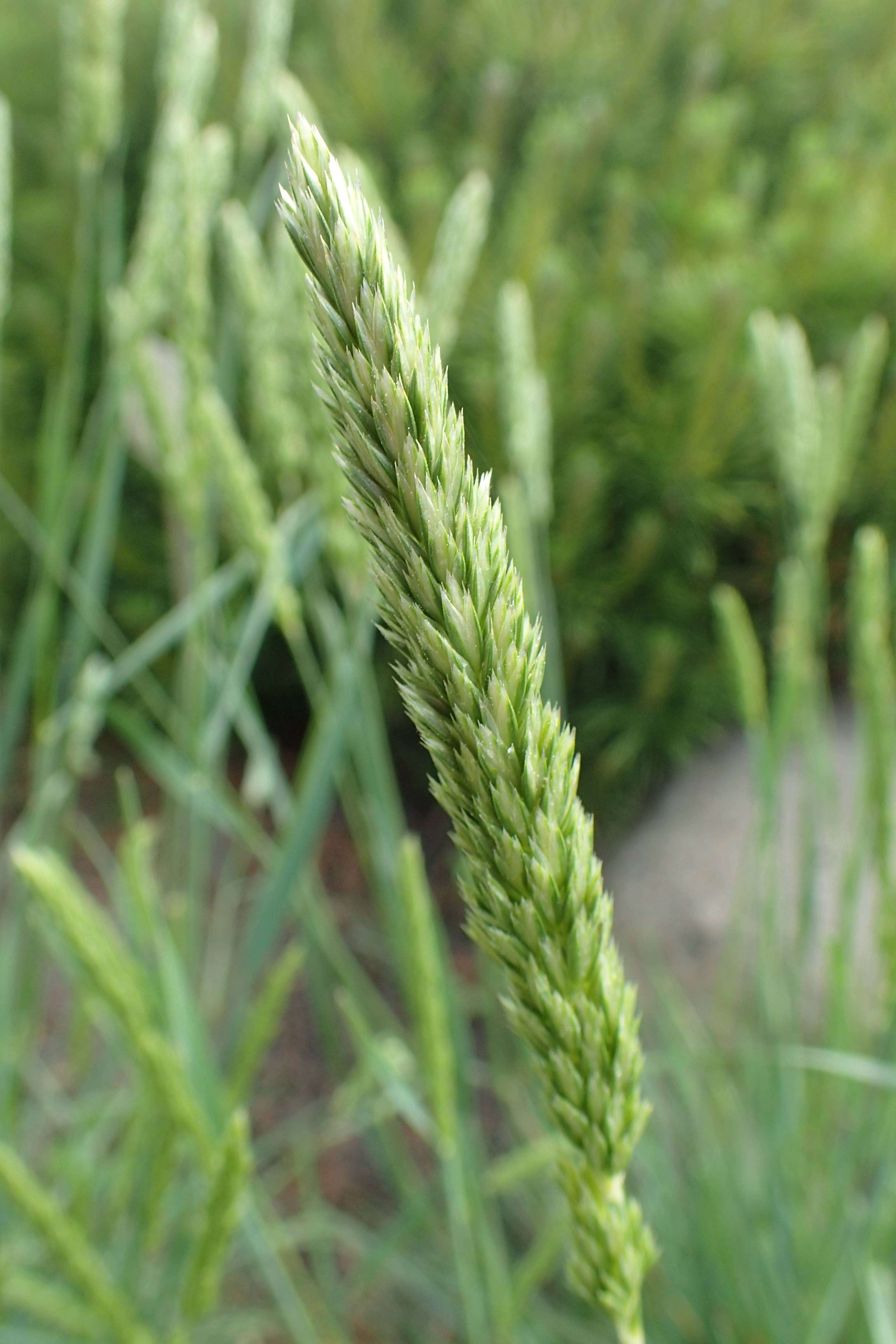 Koeleria vallesiana in the Botanischer Garten, Berlin-Dahlem